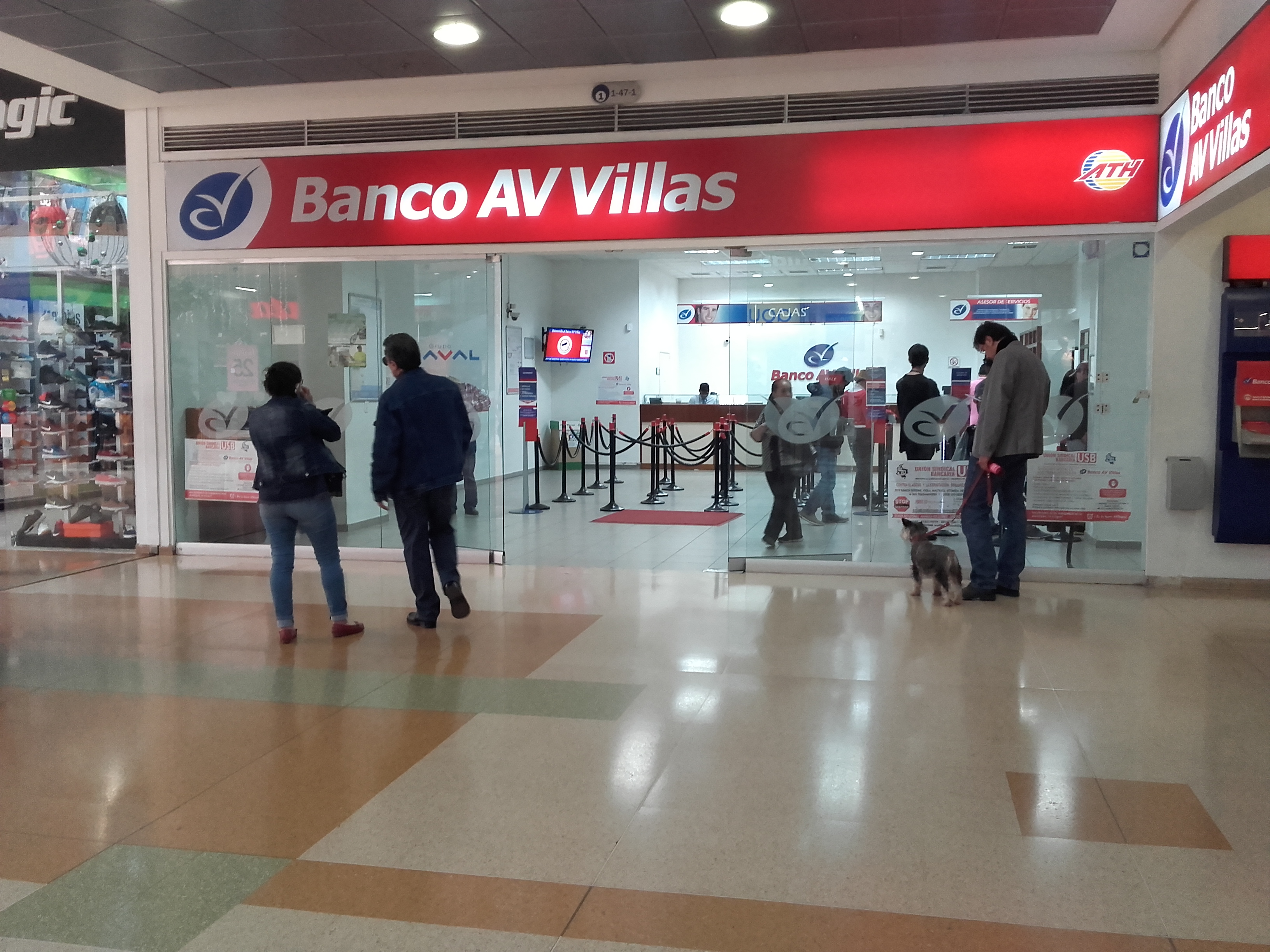 A bank inside Plaza Imperial centre commercial in the city of Bogotá, Columbia.